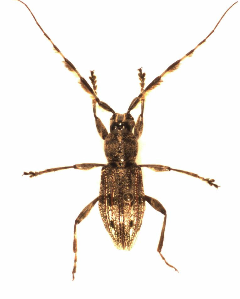 adult Hexatricha pulverulenta